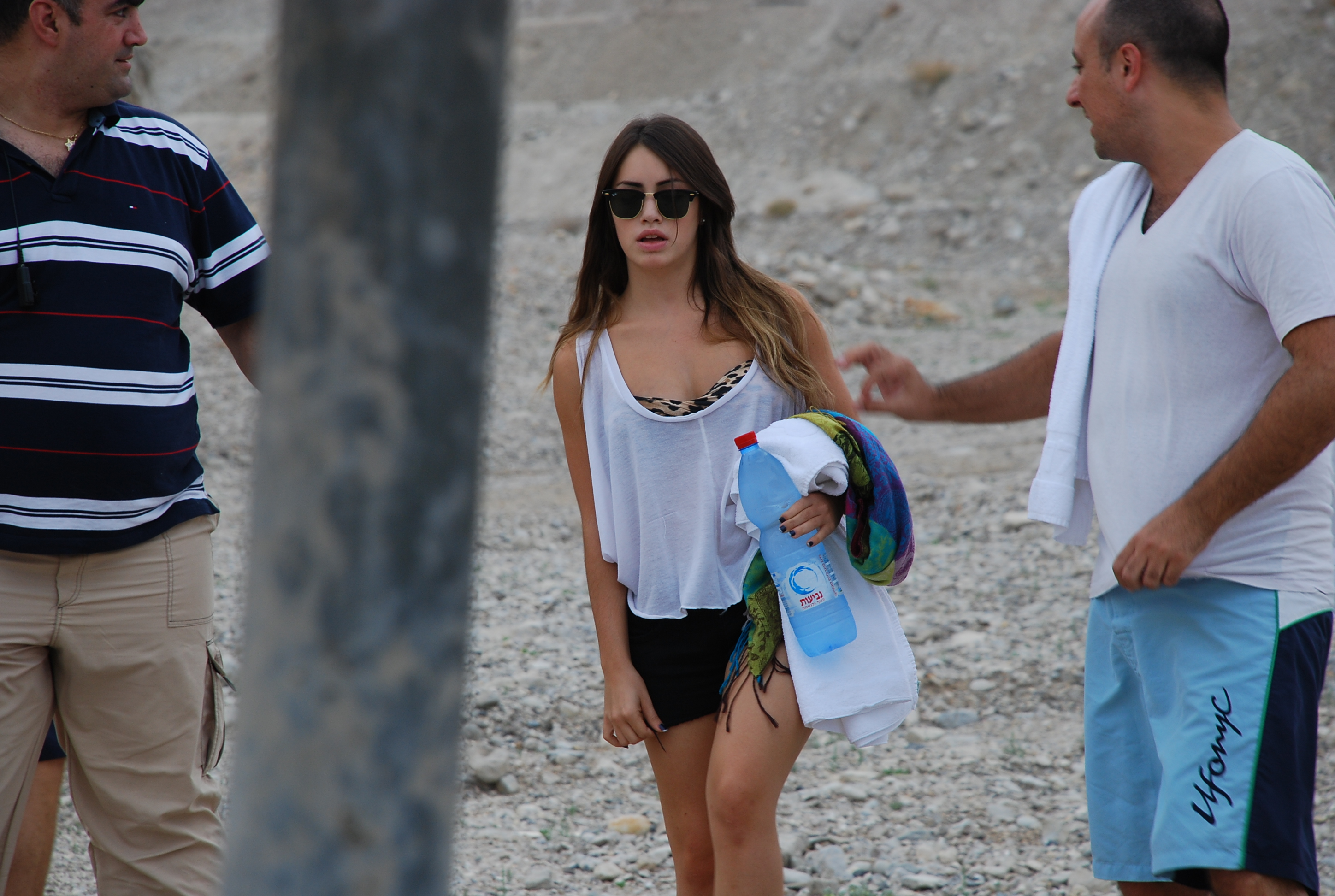 People of Israel